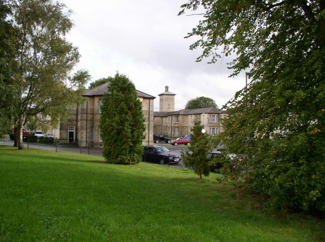 The former Roundway Hospital. This was built as the County Asylum & was later renamed Roundway Hospital. It has now been converted to residential use.